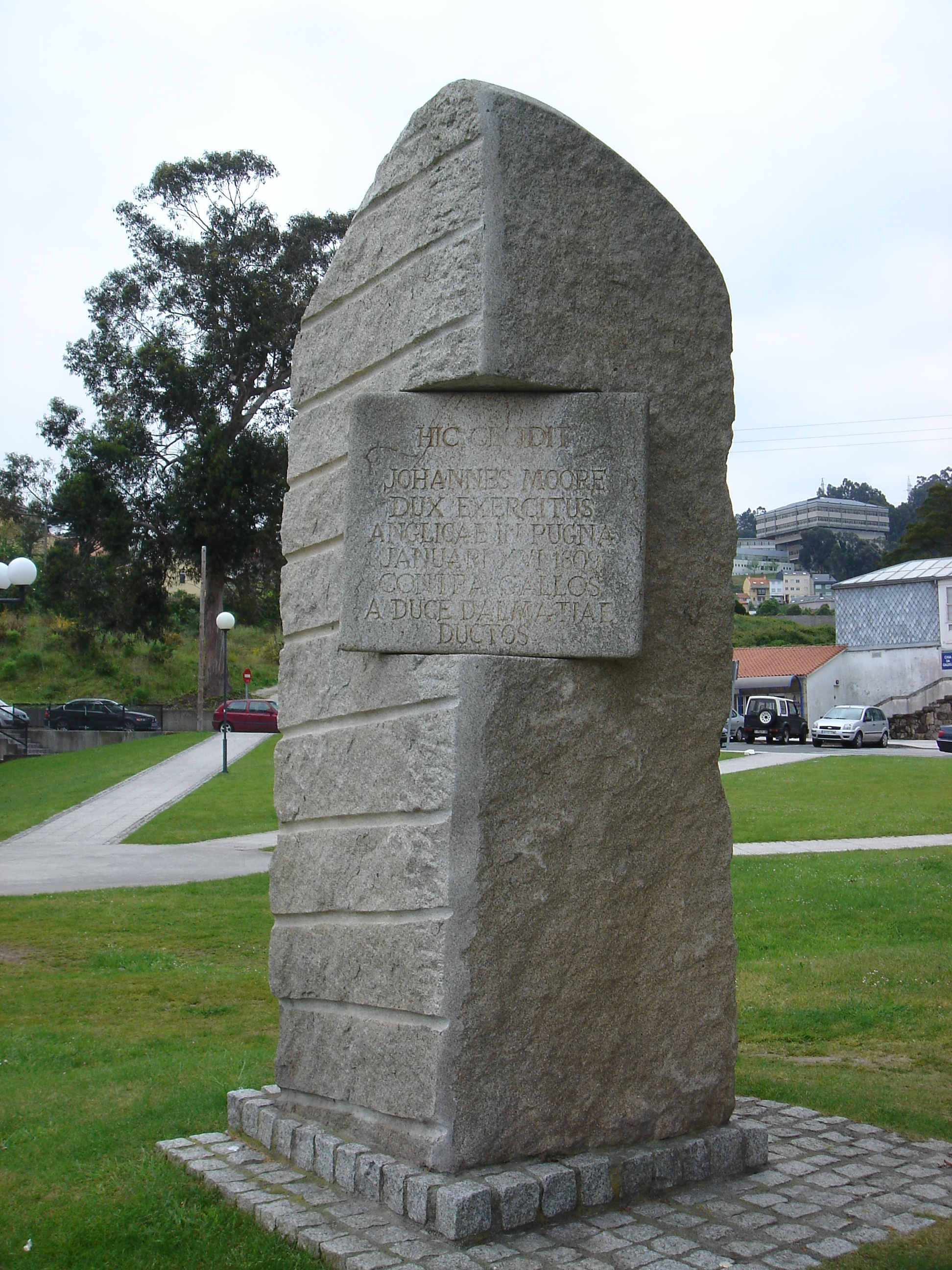 Monolith in honour to Moore in the old battlefield Monolith in commemoration the Battle of Corunna. It is situated in the old battlefield, now converted in the Campus of the University of Corunna. In the stone are written the words that Soult ordered to write in Moore's tomb: "Hic cecidit Johannes Moore, dux exercitus anglicae in pugna januari XVI 1809 contra gallos a duce dalmatiae ductos". Tranlated into English it says : "Here lies John Moore, commander in chief of the English army, in the battle of January, 16th 1809 against the French commanded by the Dalmatian Duke".